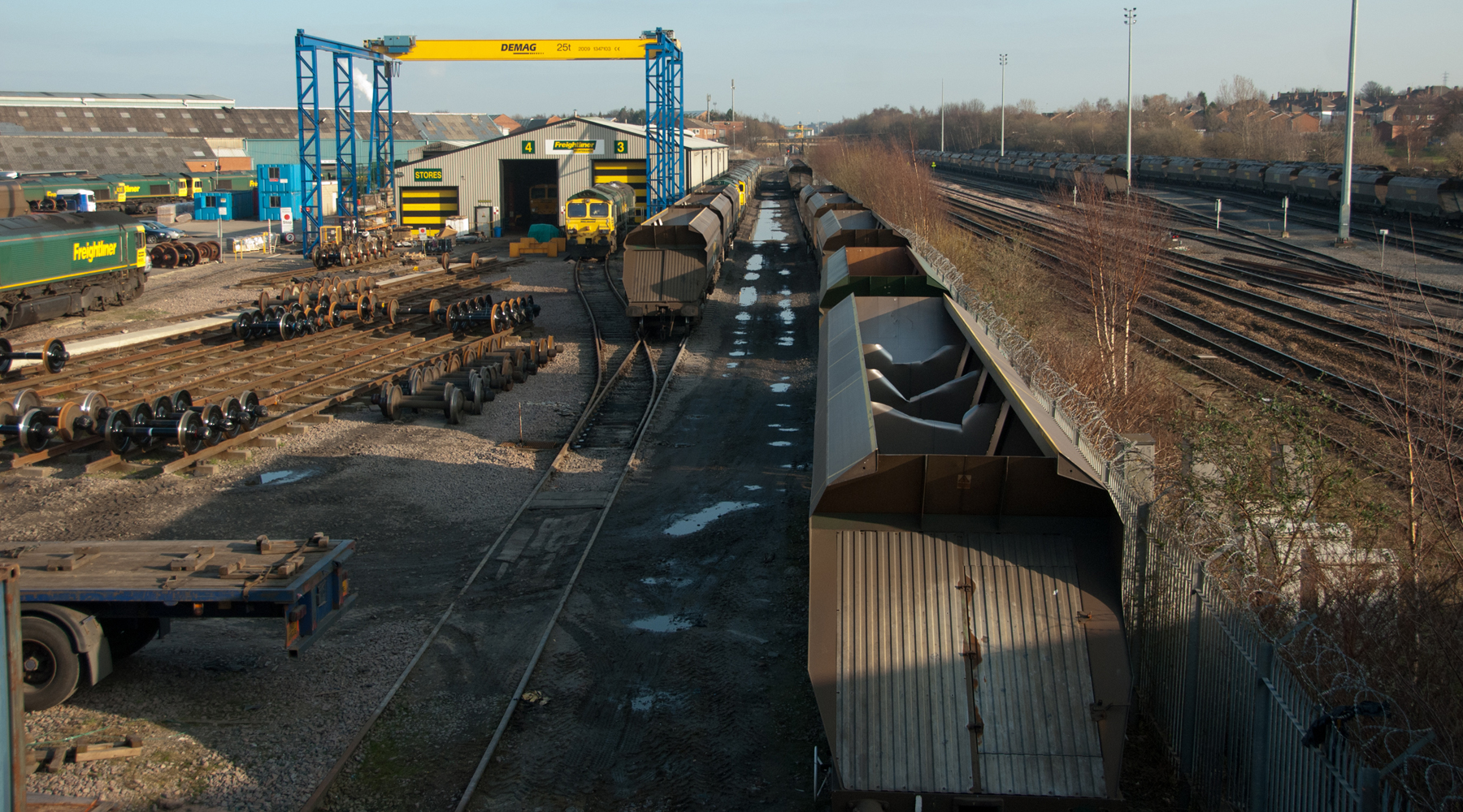 Leeds Midland Road depot from the buffer stops